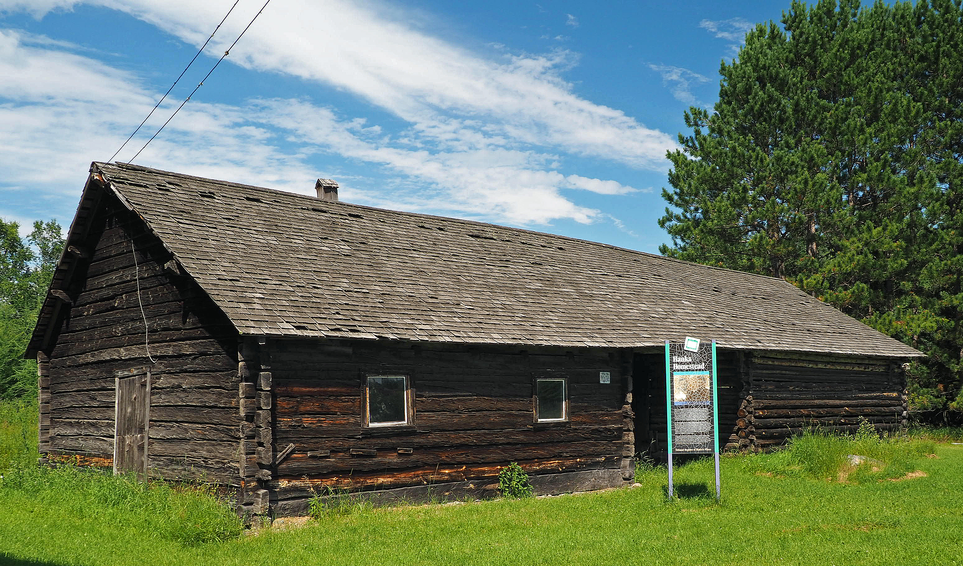 Cattle and hay barn, Gregorius and Mary Hanka Farmstead, 7938 Pylka Rd, Embarrass Township, Minnesota, USA. Viewed from the southwest.